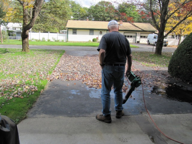 A man using an electric leaf blower, Vermont, USA.